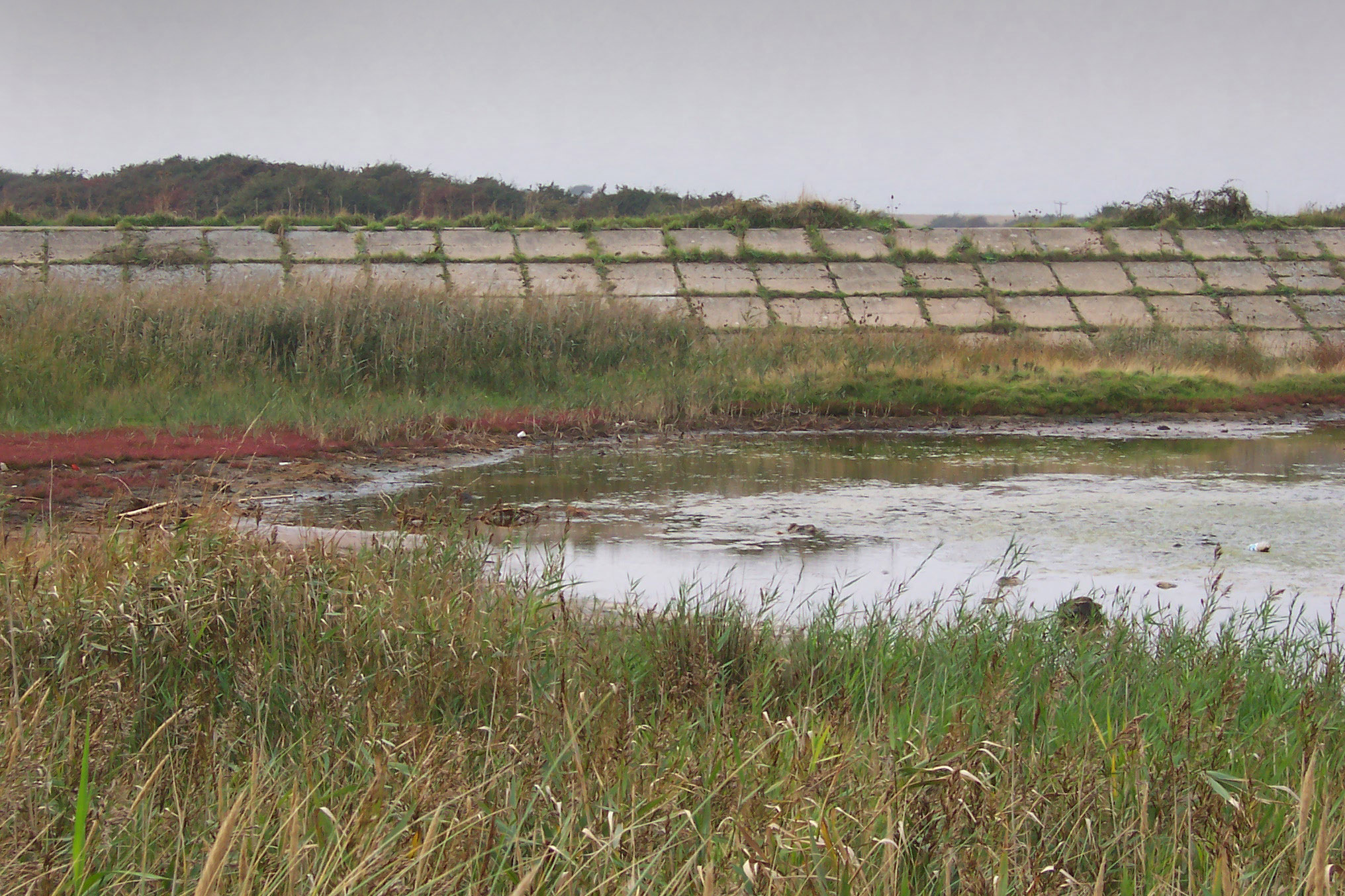 Photo of the Naze, England.